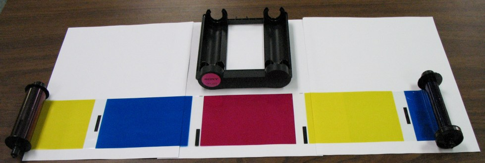 This is a photo of the color panels inside a 3-color RGB dye-sublimation photo printer cartridge. The cartridge has a source spool of unused panels, and as photos are printed the used panels are collected on the other spool. The panels are single-use, 3 panels used per print. The black bars alongside each panel of color are timing marks used by the printer to locate the start of each panel. The one centered in front of the yellow panel is offset to indicate this as the first panel in the print, and is used to keep the printing synchronized in case the roll is pulled out and reinserted with the rolls manually advanced past the timing mark. Photographed by Dale Mahalko, from a nearly obsolete 310dpi Sony UP-D2500 photo printer.